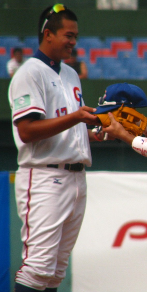 2013 U18